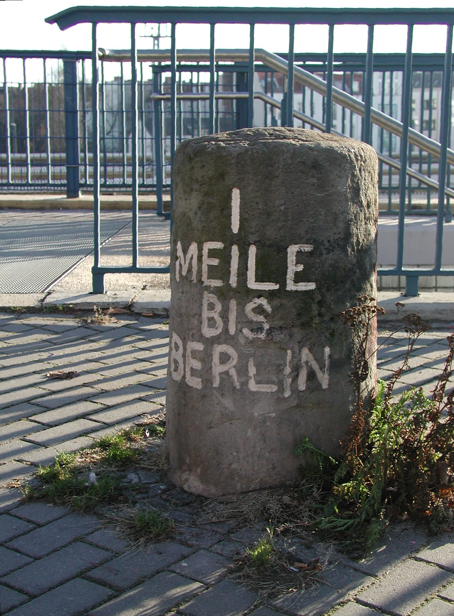 Inscription: I Meile bis Berlin, i.e. one Prussian mile to Berlin (equalling 4.6805 statute miles)